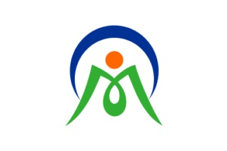 Flag of Mimasaka Okayama